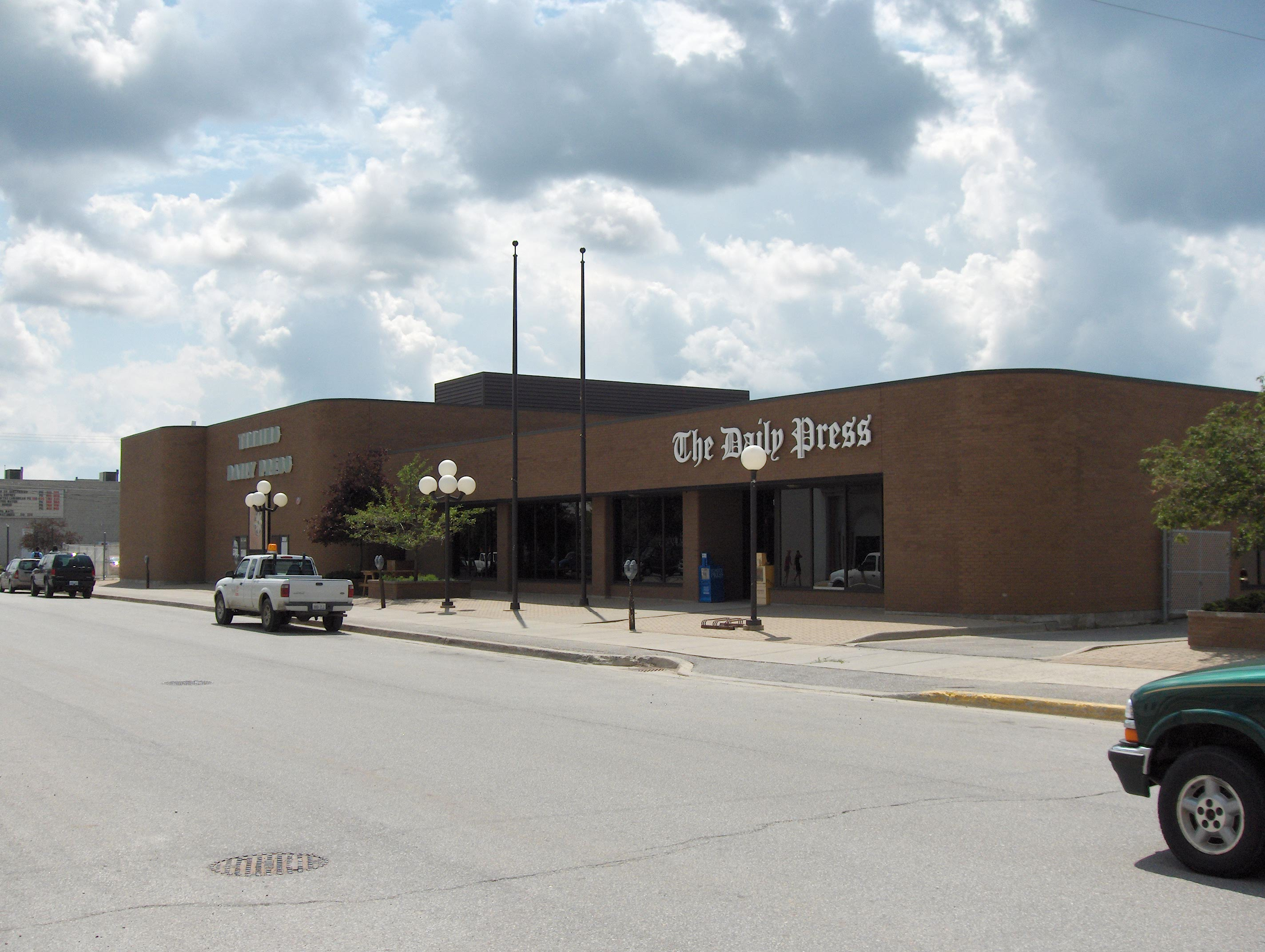 Author - John Monaghan Source - HP Photosmart R717